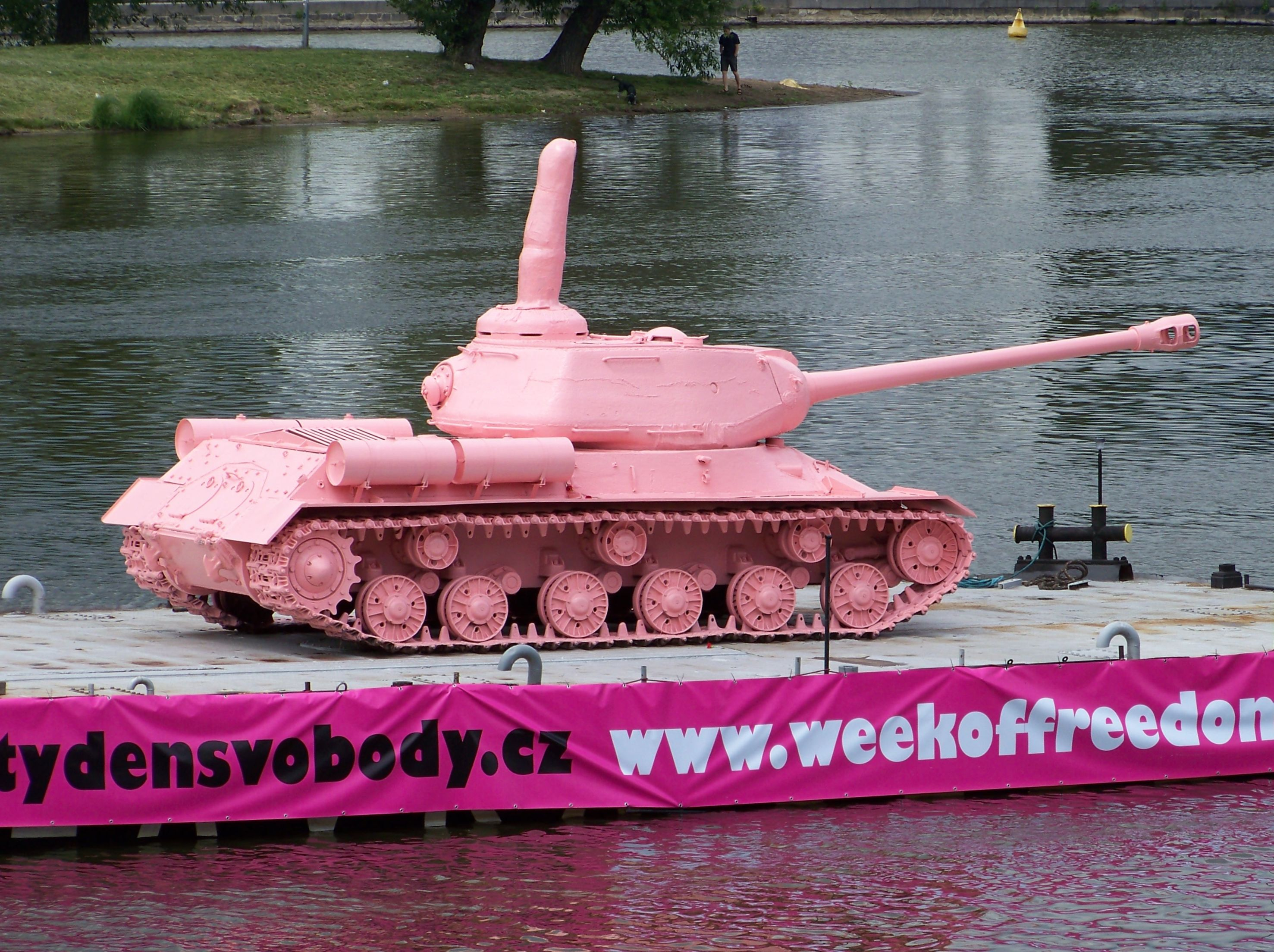 Prague-Old Town, the Czech Republic. The Pink Tank by David Černý on the Vltava river.